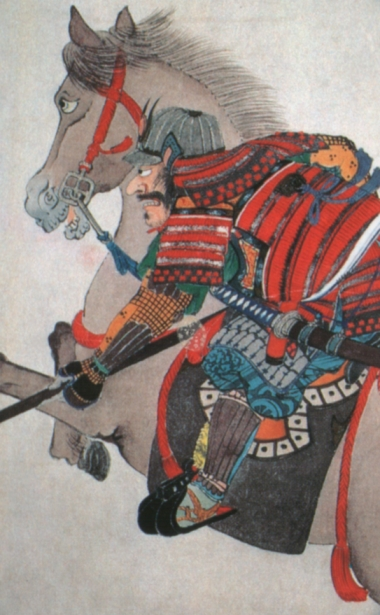 Riding image of Morimasa Sakuma, a feudal general in Japan